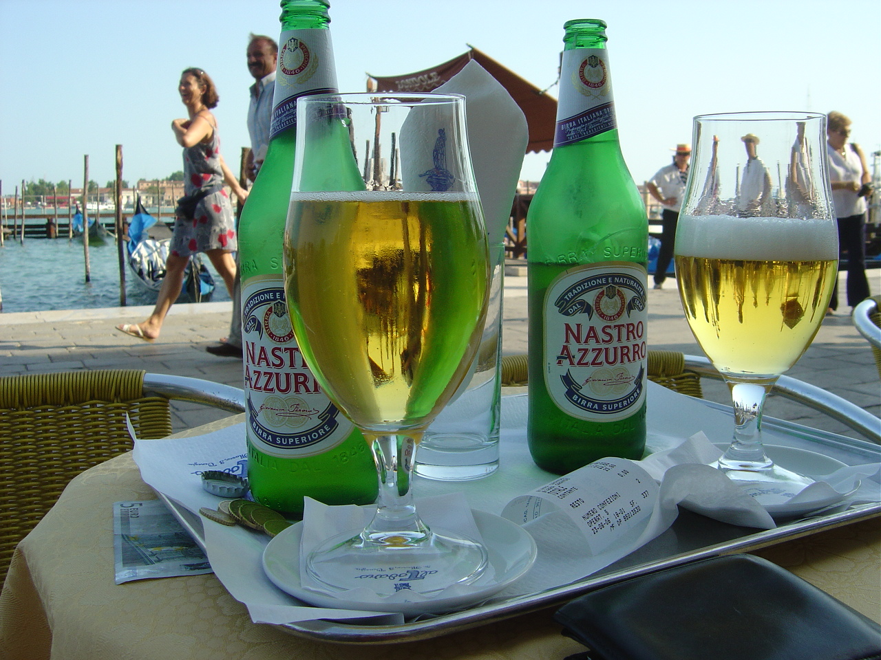 Description: Nastro Azzurro at a sidewalk cafe in St Mark's Square. Source: Photo by stanthejeep Date: June 23, 2006 Location: St Mark's Square, Venice, Italy Author: stanthejeep